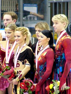 The ice dancing podium at the 2004 NHK Trophy. From left: Tatiana Navka / Roman Kostomarov (2nd), Albena Denkova / Maxim Staviski (1st), Isabelle Delobel / Olivier Schoenfelder (3rd)